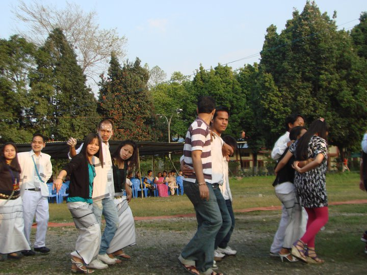 This is a picture of Mopin festival dance.